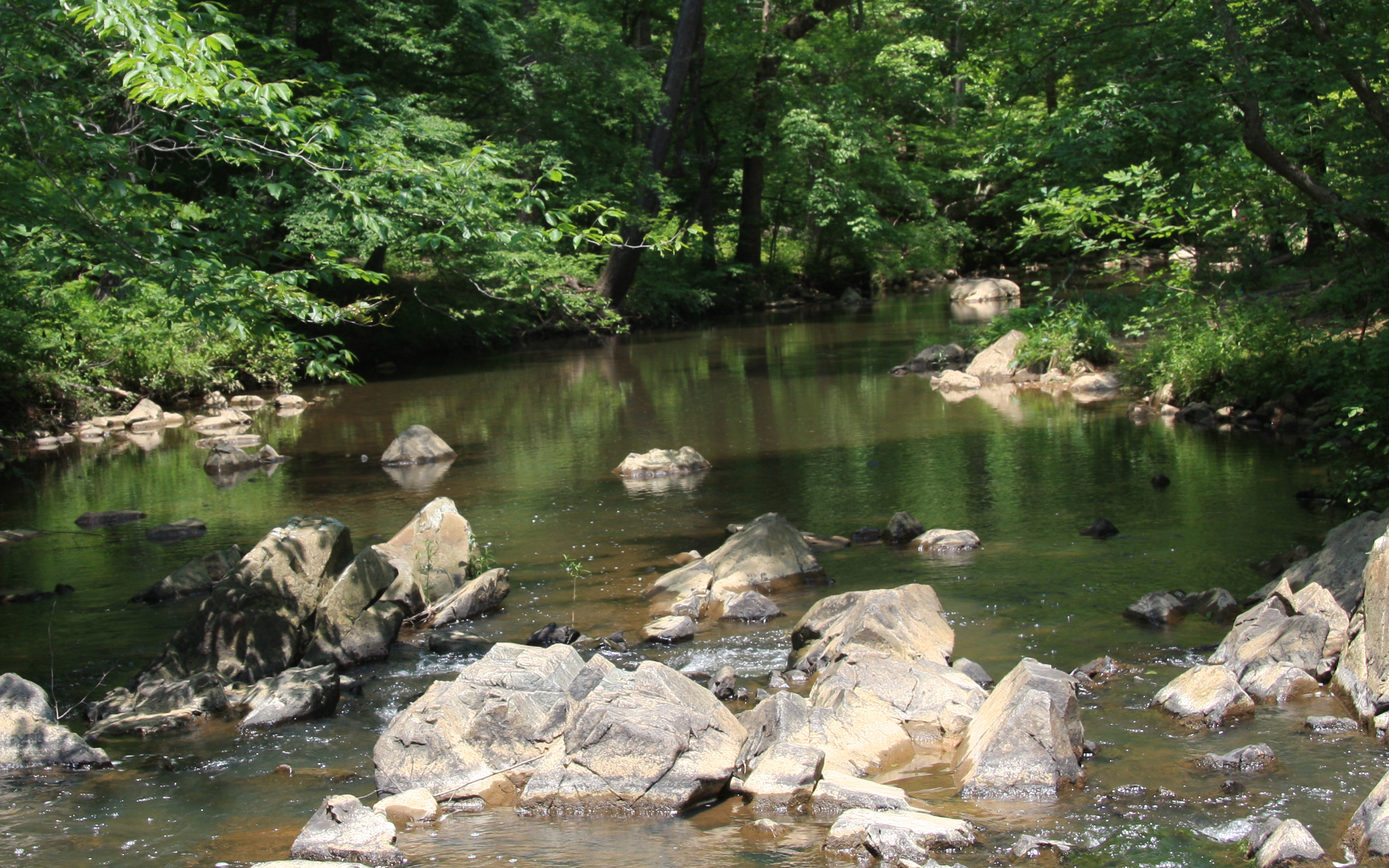 New Hope Creek, looking west from rocks in the stream. Duke Forest Korstian Division, in Durham NC, near the trail below Piney Mountain.